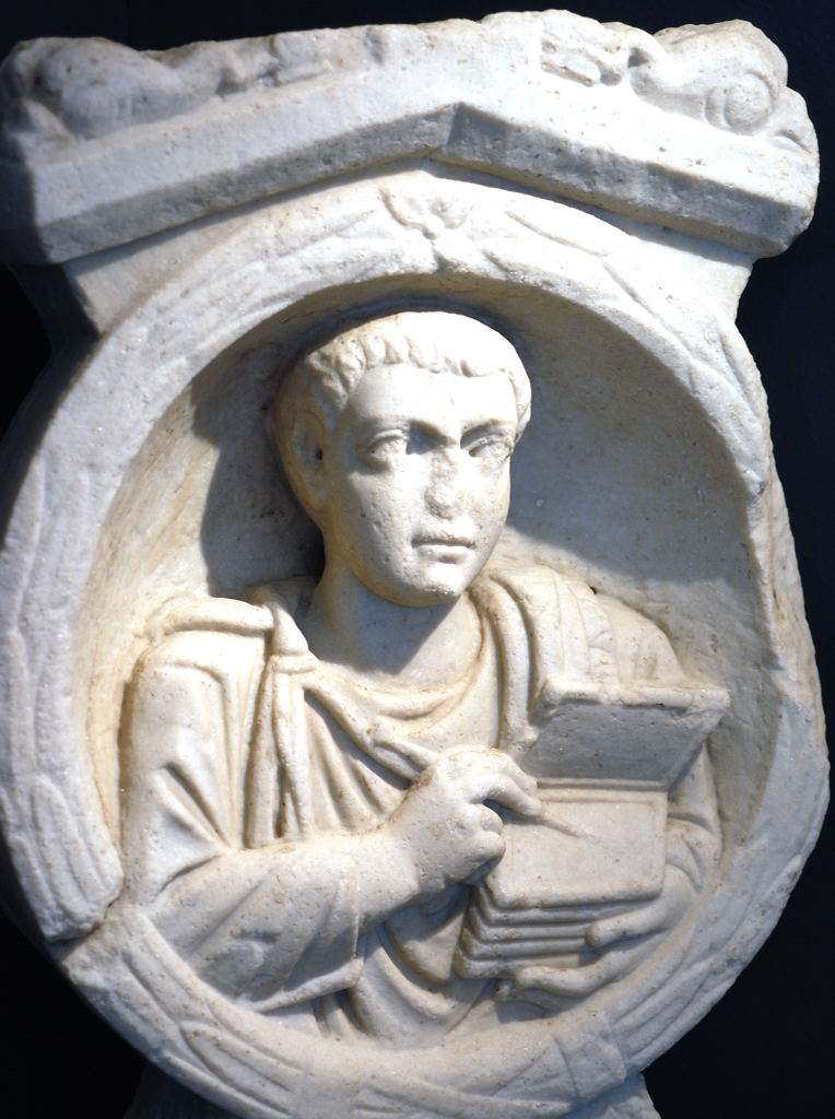 Relief from a scribe's tomb found in Flavia Solva